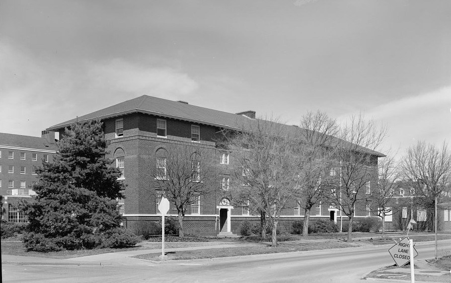 Boy's Dormitory at Oklahoma State A&M College (later Oklahoma State University). Opened in 1910, the Historic American Buildings Survey said it was significant as "... the first permanent boy's dormitory in Oklahoma ... [and] the sole surviving example of a pre-1930 utilitarian dormitory that is characteristic of modified Italian Renaissance Revival architecture". Later renamed Crutchfield Hall, it was demolished in 1955.